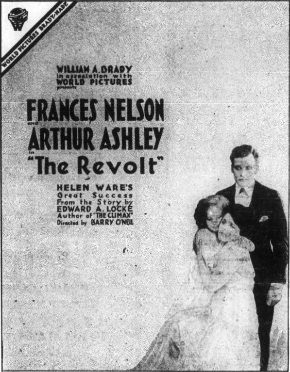 Advertisement for the American drama film The Revolt (1916) with Frances Nelson and Arthur Ashley, on page 26 of the September 29, 1916 Variety.